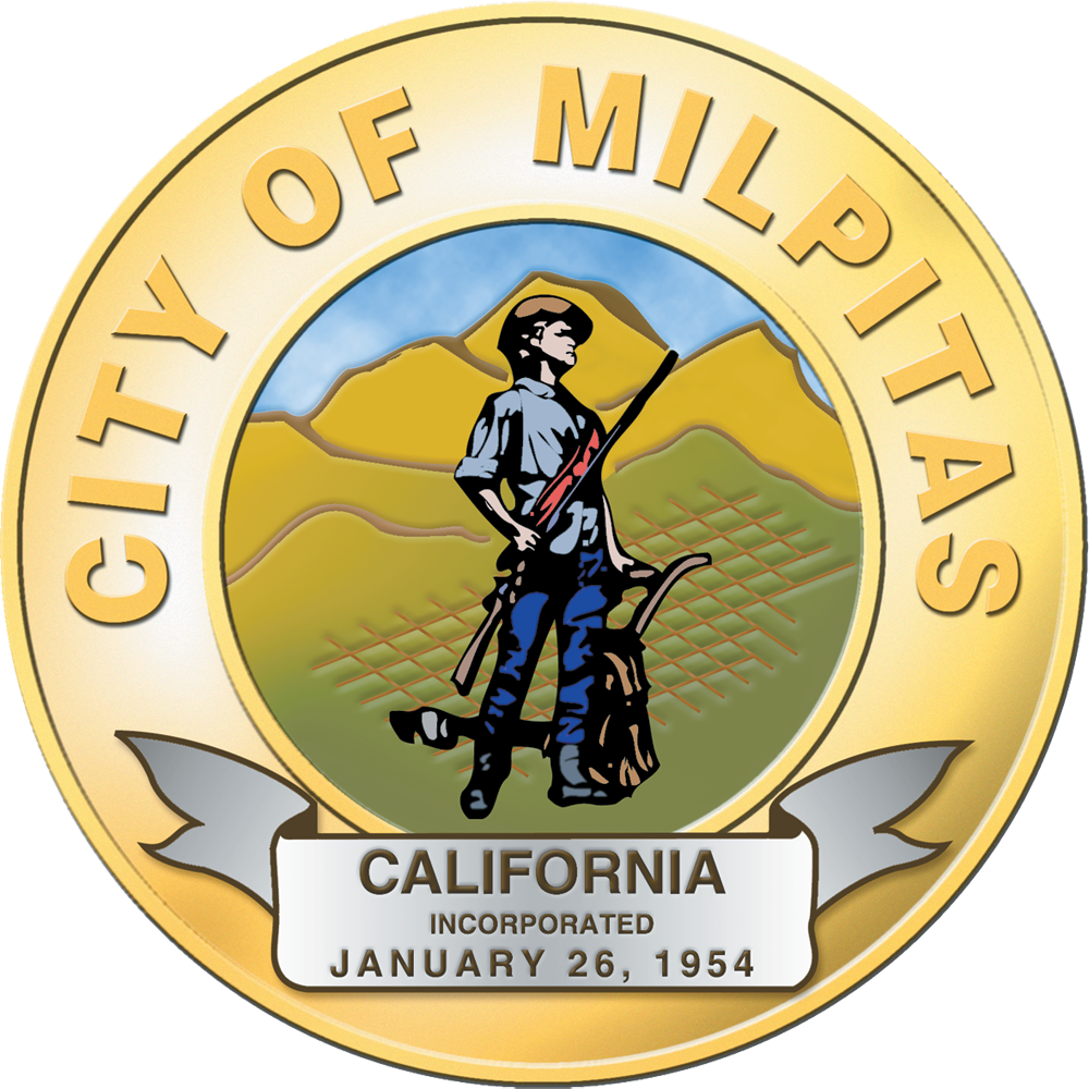 Seal of Milpitas. Description: "It consists of a golden yellow outer ring bordered in old gold. At the top of the outer ring are the words 'CITY OF MILPITAS' in old gold block lettering, while at the bottom is a ribbon folded into three parts; the right and left hand folds are shaded in gray and have forked ends, but the middle fold is considerably larger than the other two and has a white background color. This middle fold contains three lines of text in black block lettering of various sizes; the first one reads 'CALIFORNIA', the second 'INCORPORATED', and the bottom line has an illegible date. The central image depicts a landscape consisting of hills in various shades of green, with a blue sky above. In the foreground stands the figure of John Reed, a Dubliner, who was the first Anglo settler in the region; he is depicted proper and carrying a rifle at the ready. There is also a local business firm in the community which displays the logo of the American Disc Jockey Association." Ron Lahav, 9 February 2005